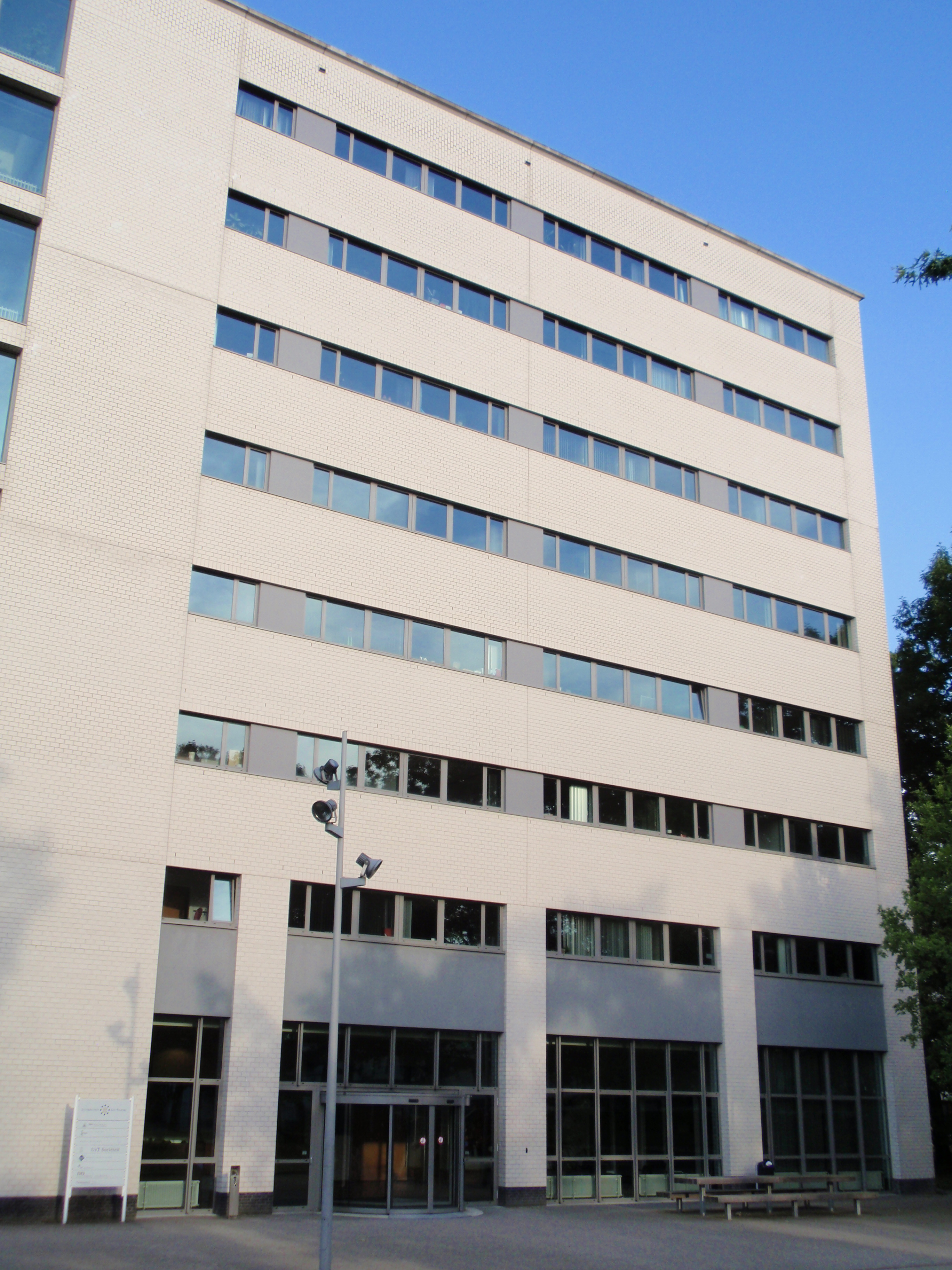 Tias Nimbas Business School (Tilburg)